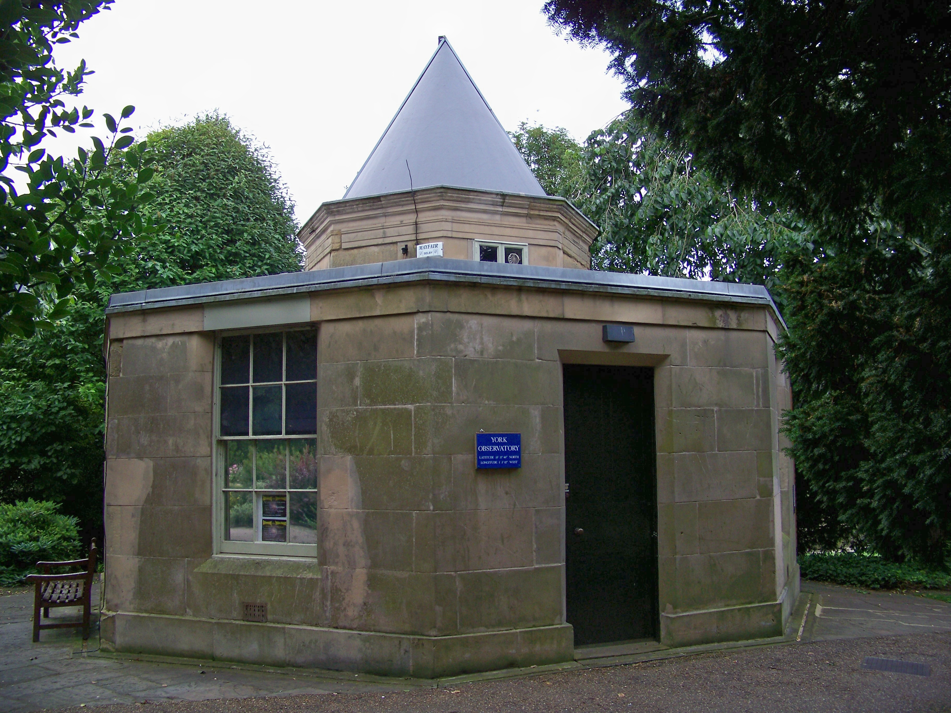 York observatory in the centre of Museum Gardens, York, England, forms part of the Yorkshire Museum. The octagonal observatory during built during 1832 and 1833 and the design of its rotating roof is credited to John Smeaton.